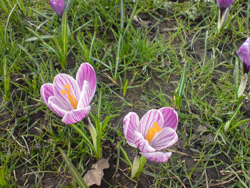 Crocus vernus in Kew Gardens, England.